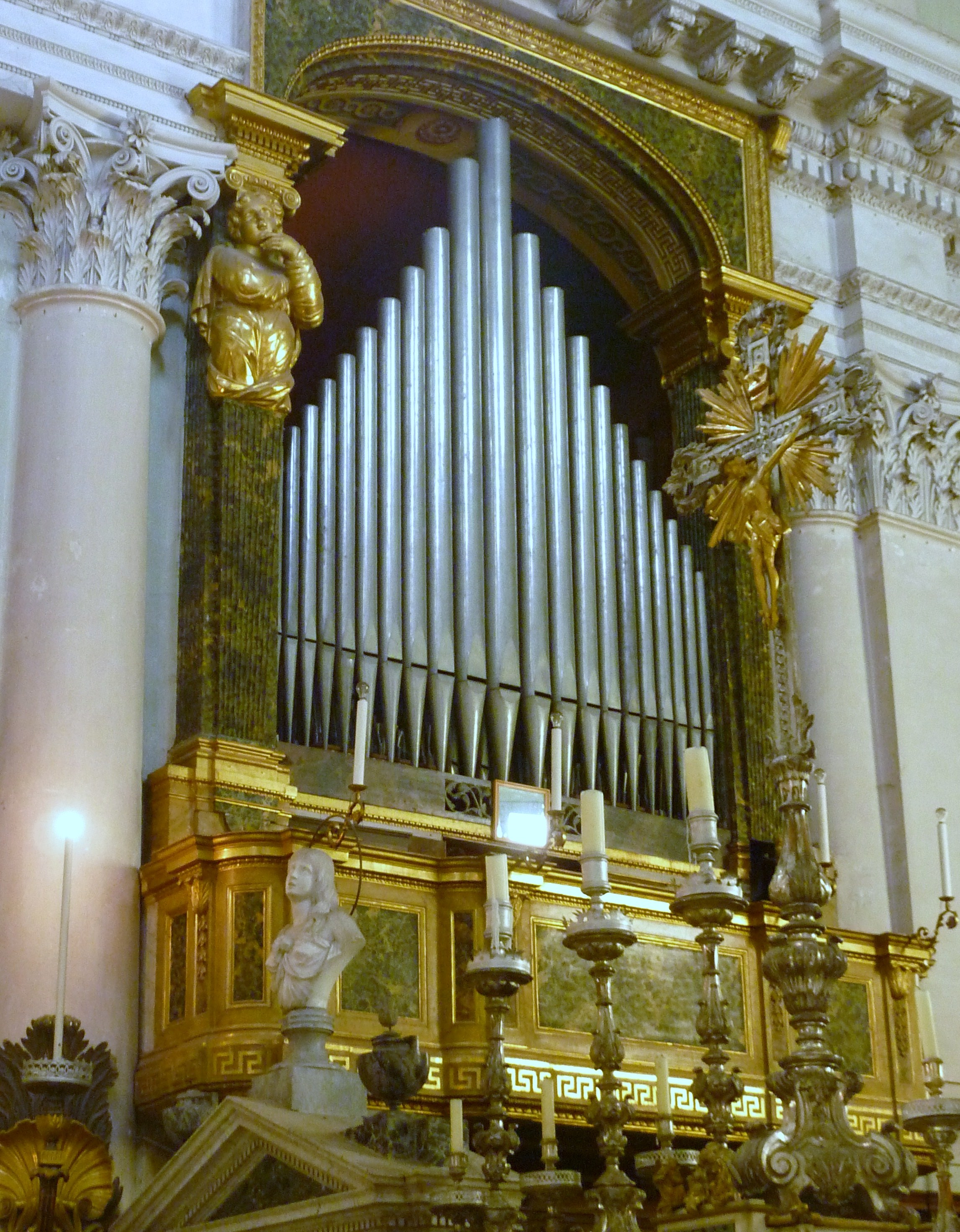 The organ Serassi in the Chapel of San Liborio (Colorno, Italy).